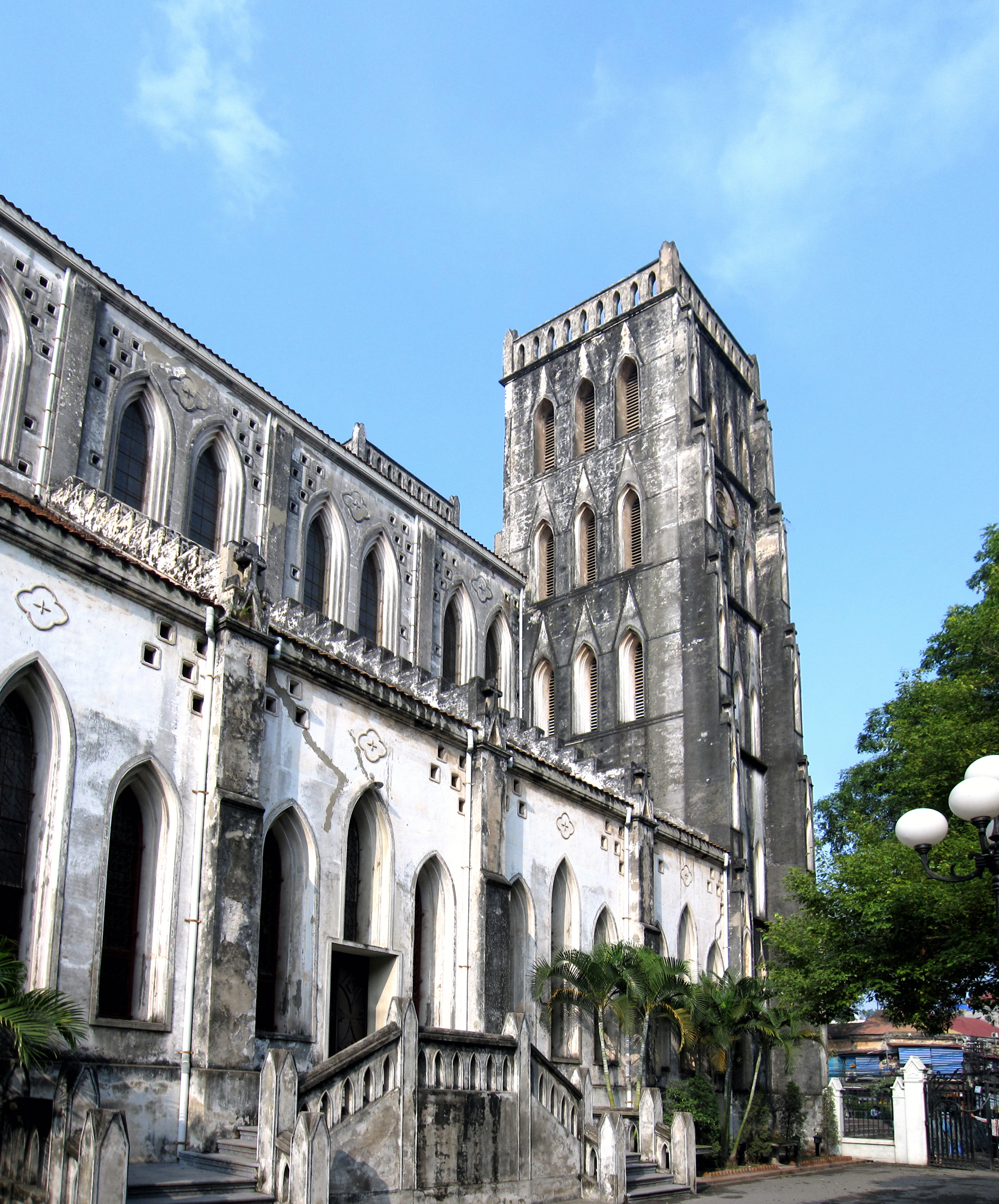 St. Joseph's Cathedral, Hanoi